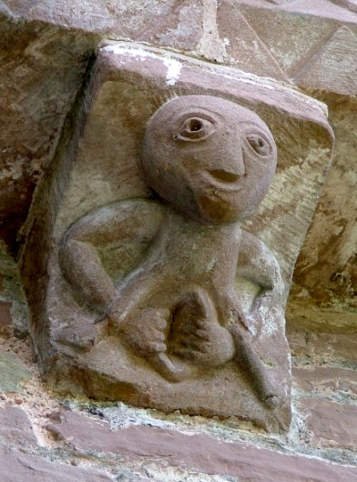 The Sheela na Gig project The (in)famous Kilpeck Sheela Na Gig